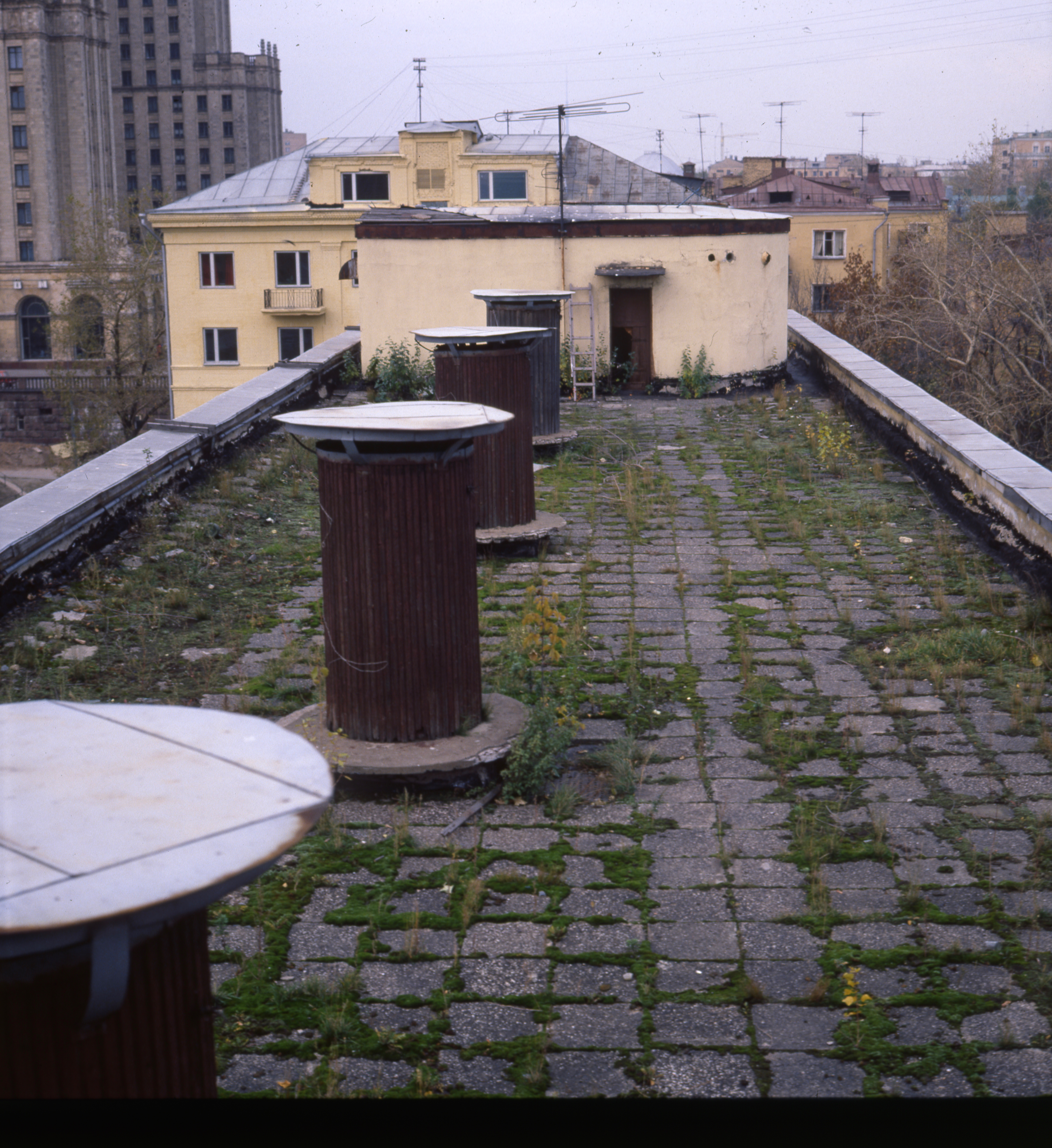 This photo was taken around 1973 , on the roof of the building.